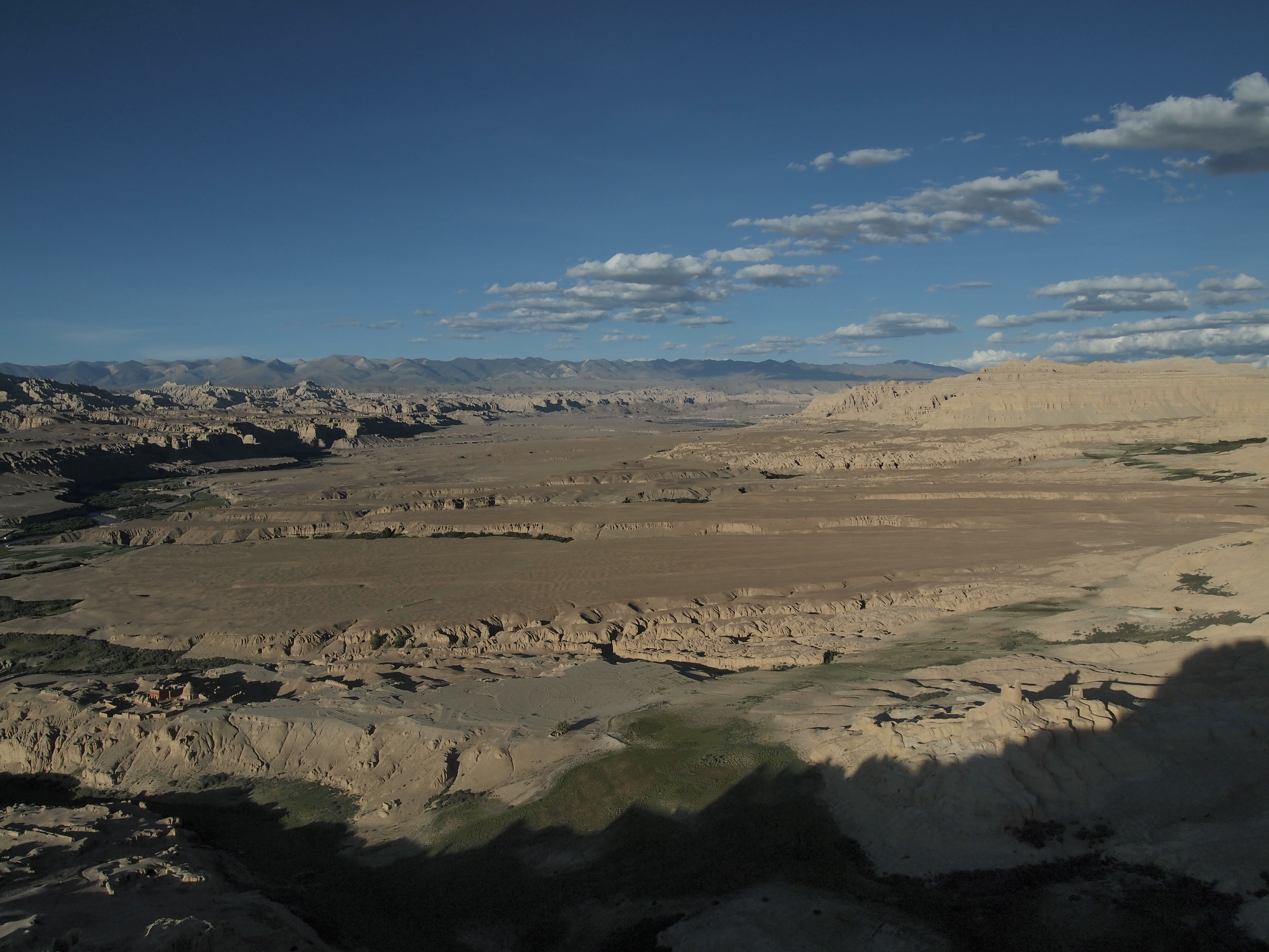 Tsaparang, Ruins of Guge